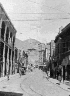 Bisbee, Arizona's Brewery Gulch between 1910 and 1919. Note the existence of the streetcar tracks. Picture has been shortened a little bit in order to fit in an info box better.